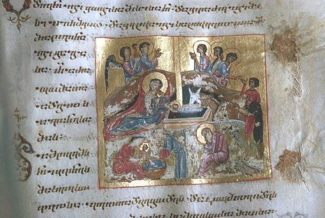 A folio from the Gelati Gospels from Art Museum of Georgia showing the birth of the Christ.